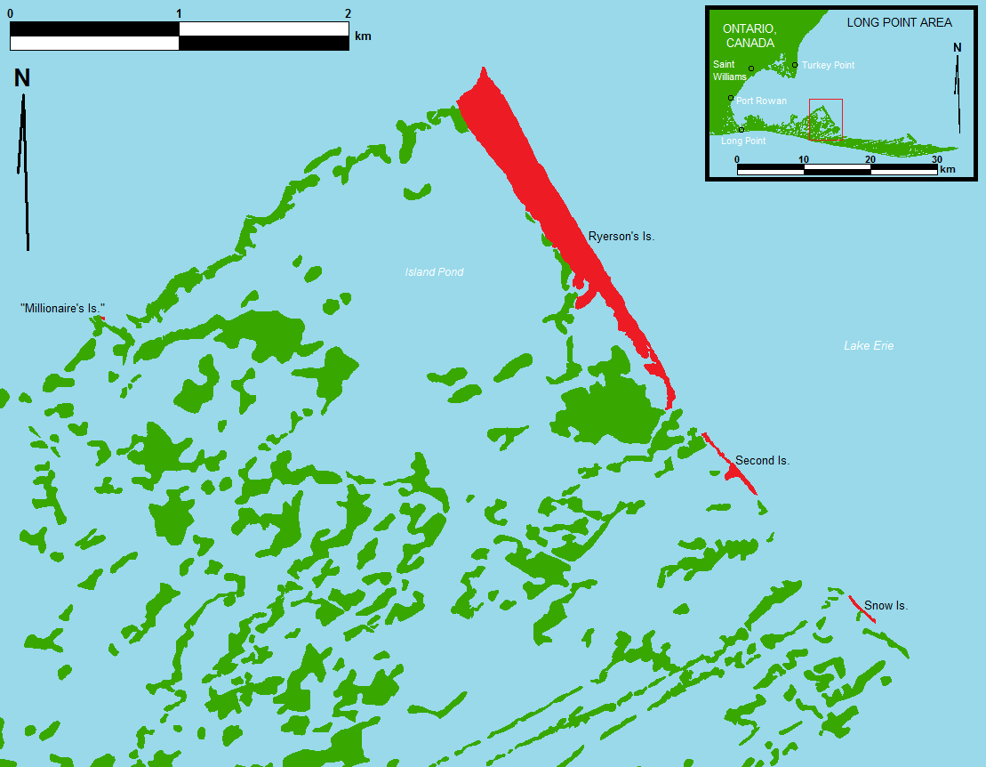 Shows the location of the 4 islands in Lake Erie near Long Point, ON. Other information For Geographic Reference Only. Not for Navigational Purposes.